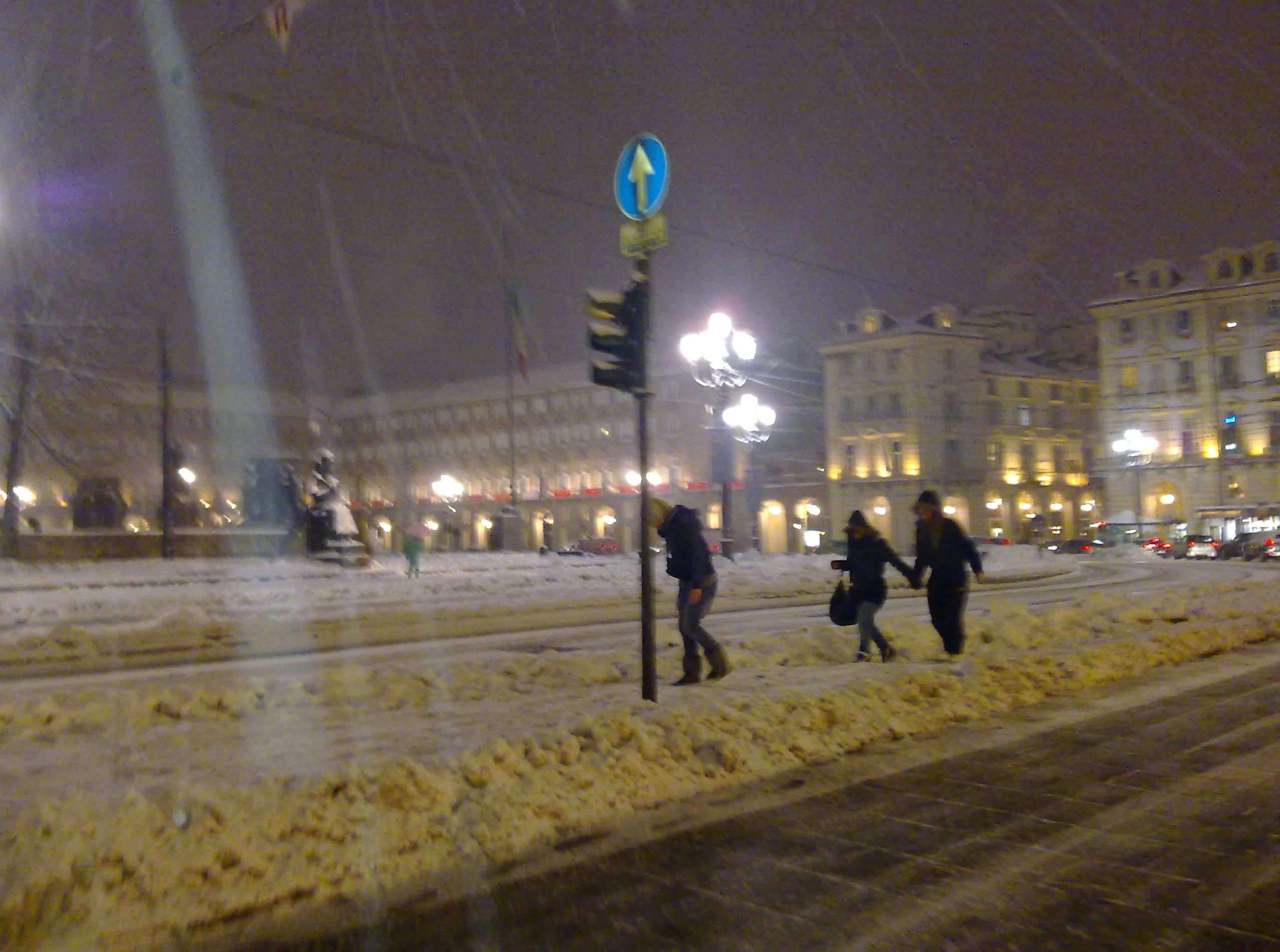 Piazza Castello in winter, Turin (Italy)